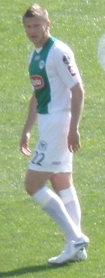 Marcin Robak, Polish footballer